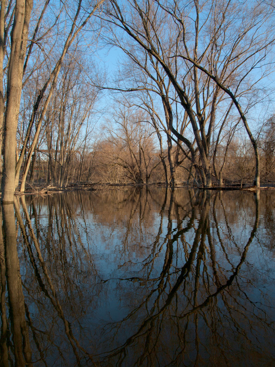 Connecticut River reflections in Hadley, MA. Credit: USFWS